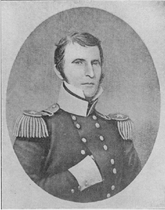 Henry Leavenworth (December 10, 1783–July 21, 1834) was an American soldier active in the War of 1812 and early military expeditions against the Plains Indians. He established Fort Leavenworth in Kansas, and also gave his name to Leavenworth, Kansas, Leavenworth County, Kansas, and the Leavenworth Penitentiary.